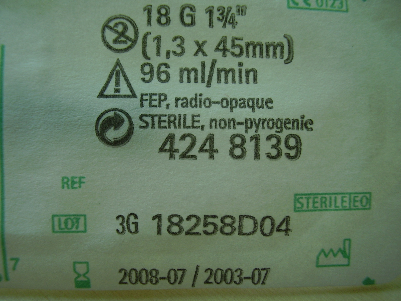 medizinische Einwegverpackung; medical one-way materials